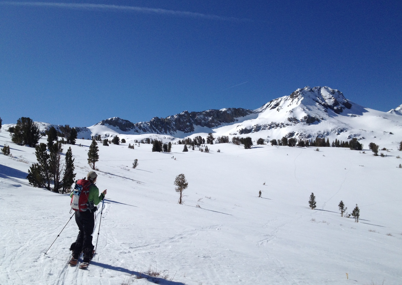 A skier heading towards Round Top Peak in the Mokelumne Wilderness, Carson Pass area, Sierra Nevada, Alpine County, California.